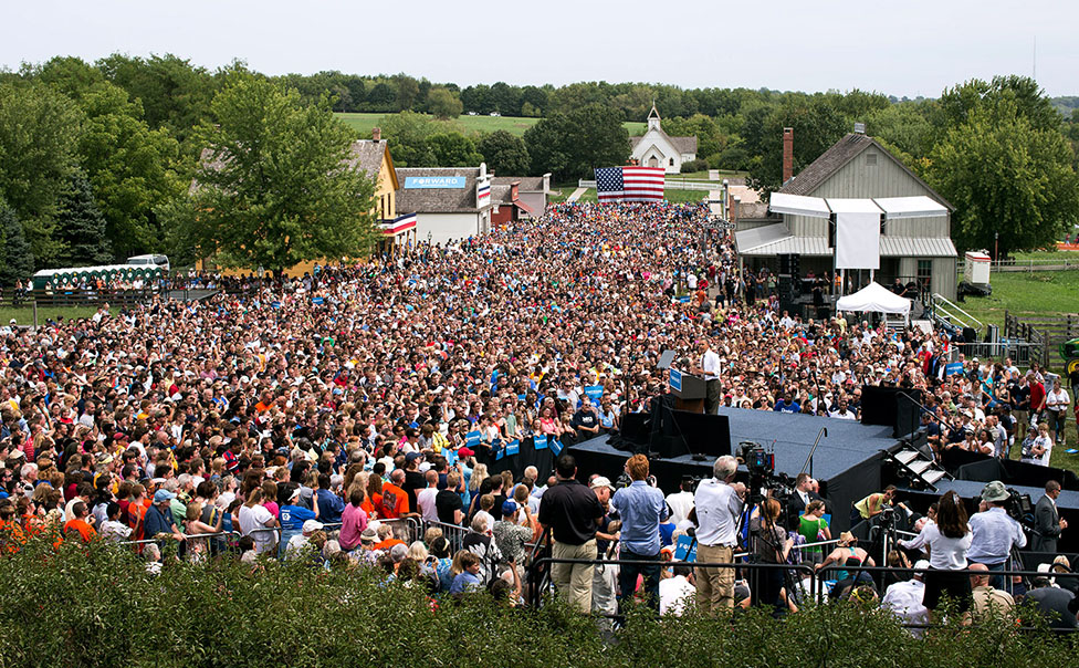 "The overview of a campaign rally in Urbandale, Iowa. This view was from a scissors lift just above the press stand." (Official White House Photo by Pete Souza)